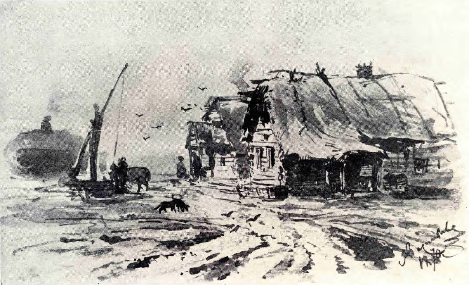 Village landscape (sepia drawing by Fyodor Vasilyev, 1870)